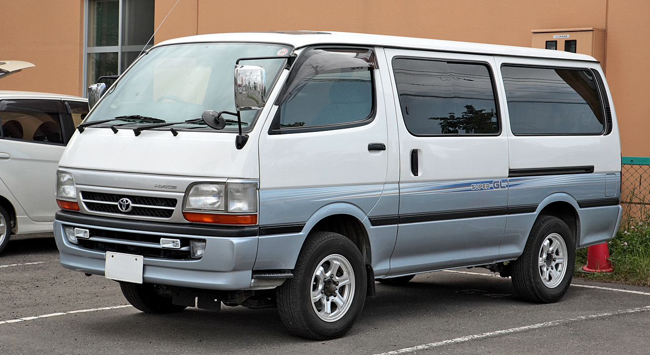 Toyota Hiace long van 3.0D Super GL ( LH178V )